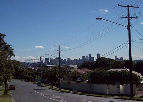 Brisbane CBD from Chatsworth Road at Upper Cornwall Street, Coorparoo